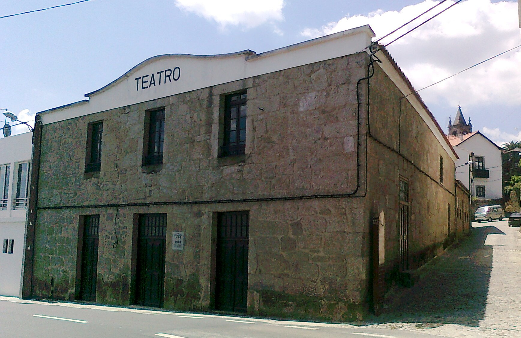 Club Theater´s Alpedrinha